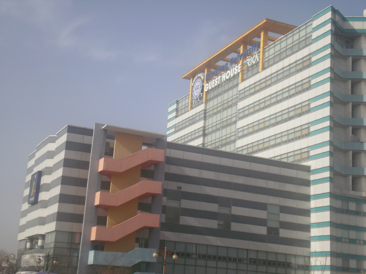 The Guest House at Hanyang University (한양대학교, 漢陽大學校, Ansan, Gyeonggi-do, South Korea) ERICA (Ansan Campus)